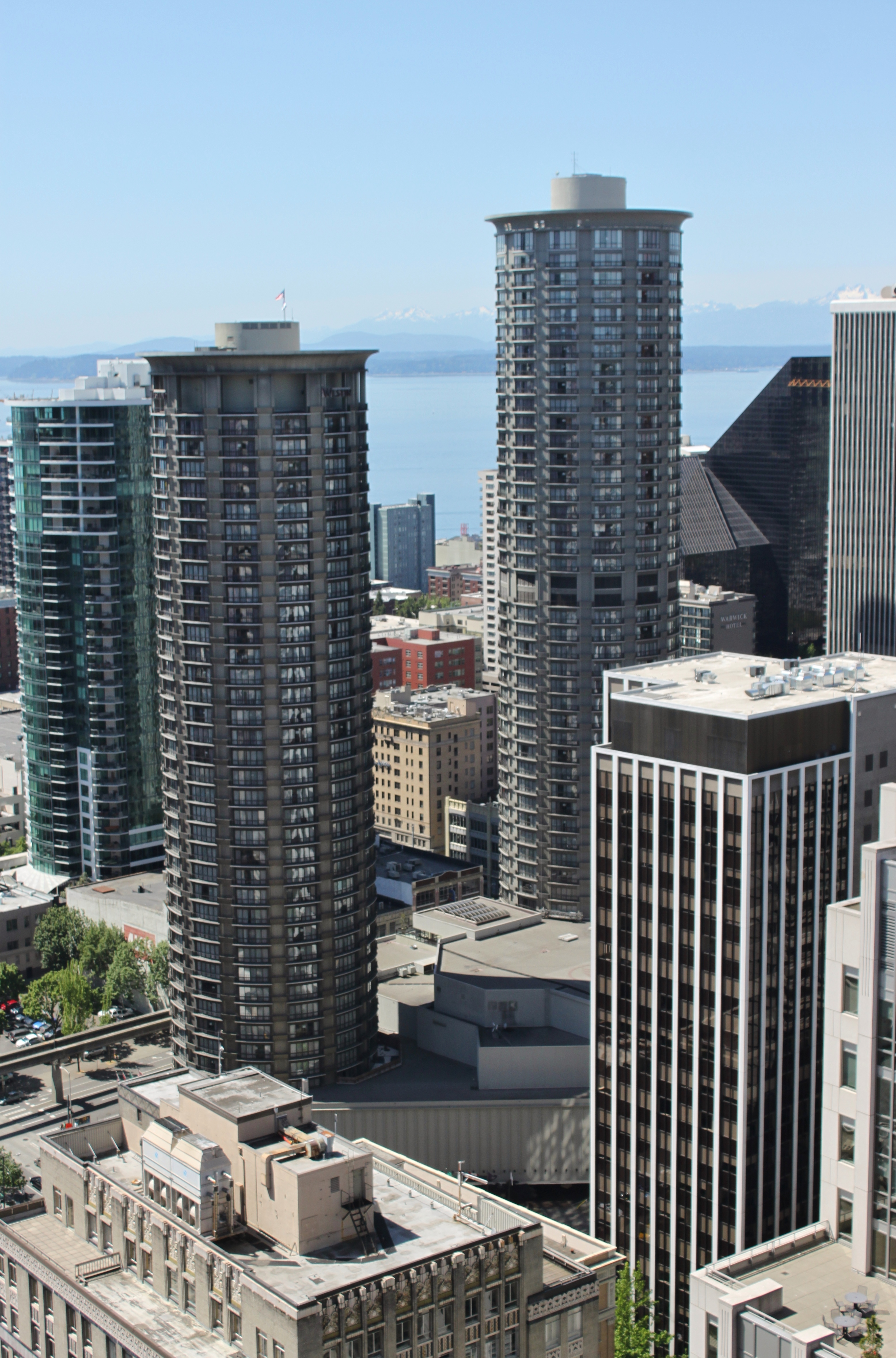 The Westin Seattle towers in Downtown Seattle, Washington, seen from the nearby Olive 8 building.